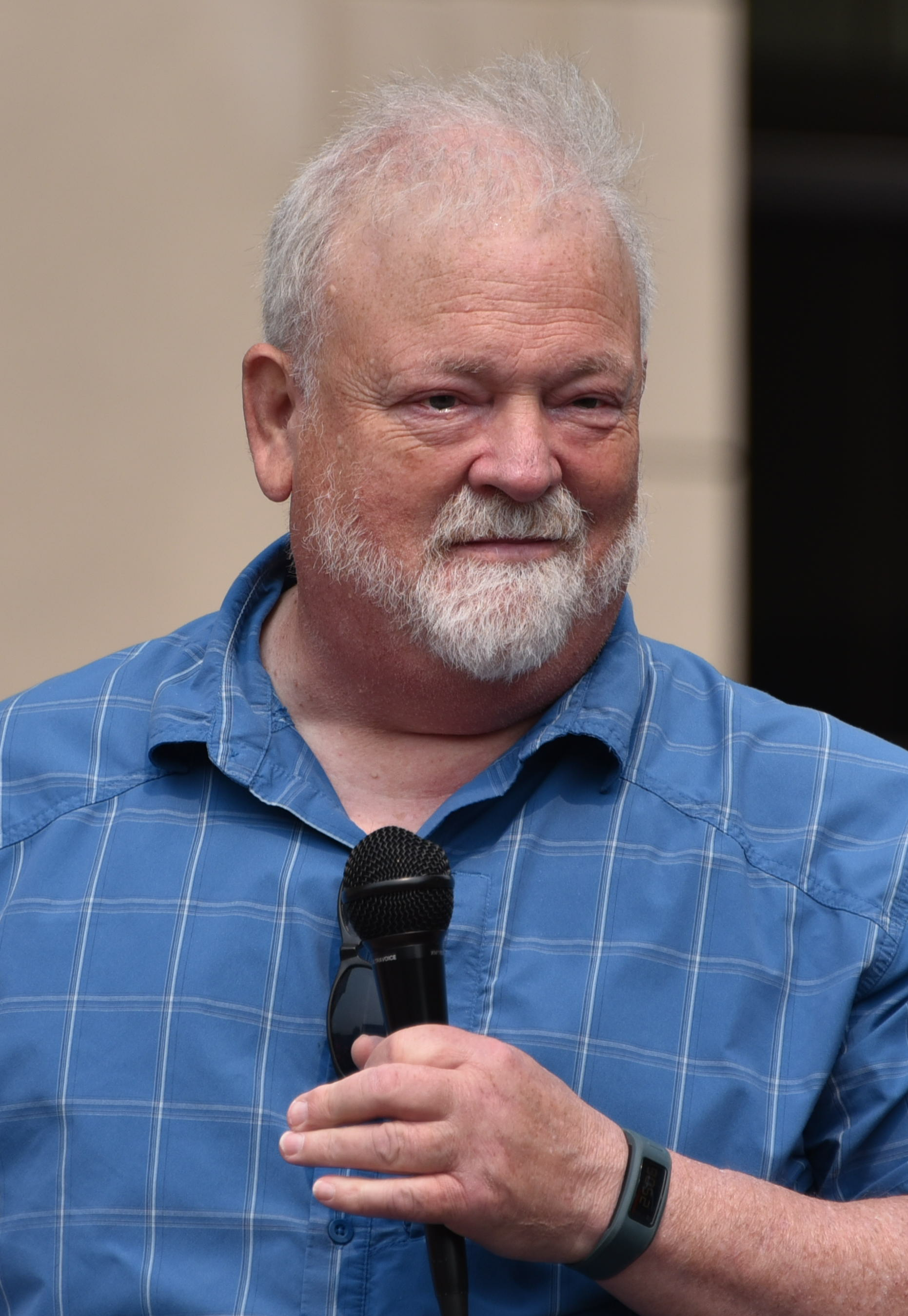 Juneau Rally for Overrides: Save Our State! Speaker Bruce Botelho, former Mayor of Juneau and Alaska Attorney General. At the Alaska Capitol Building, Juneau, Alaska.